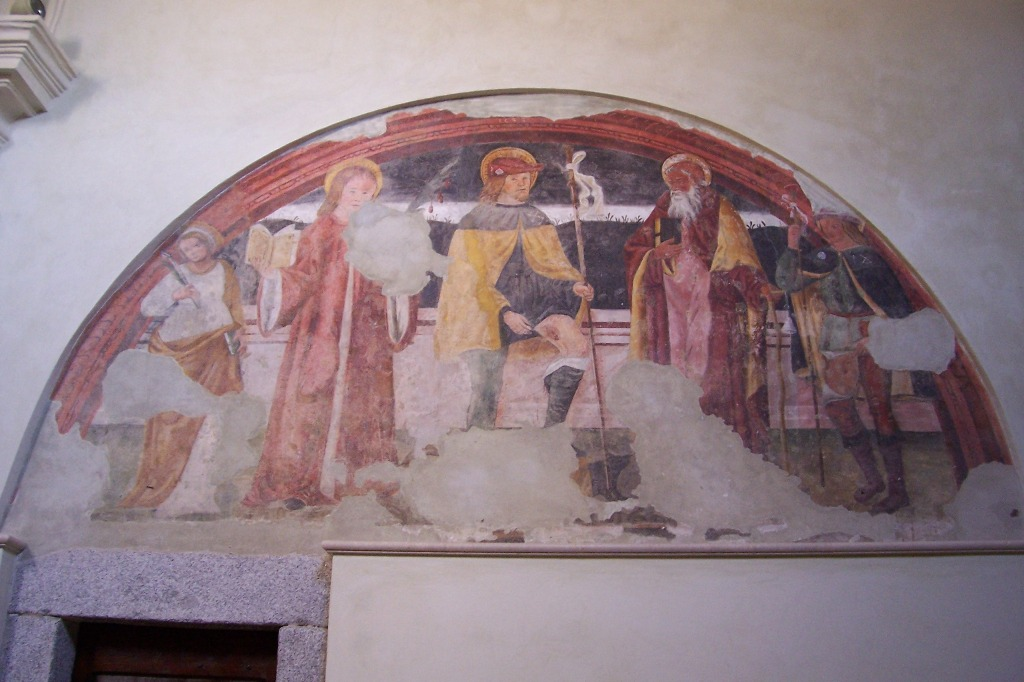 Frescos - Church of saints Hyppolitus and Cassianus. Mù, Edolo, Val Camonica